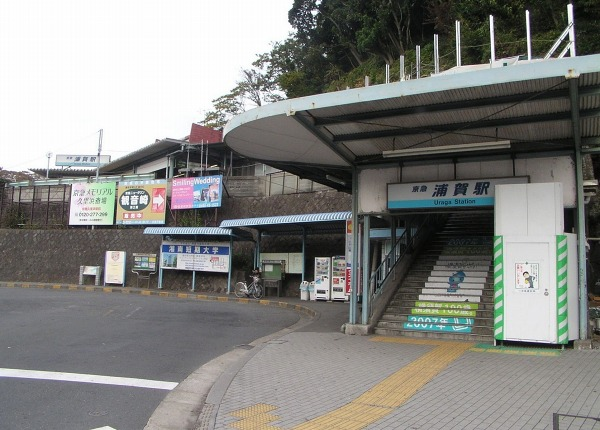 Uraga station entrance